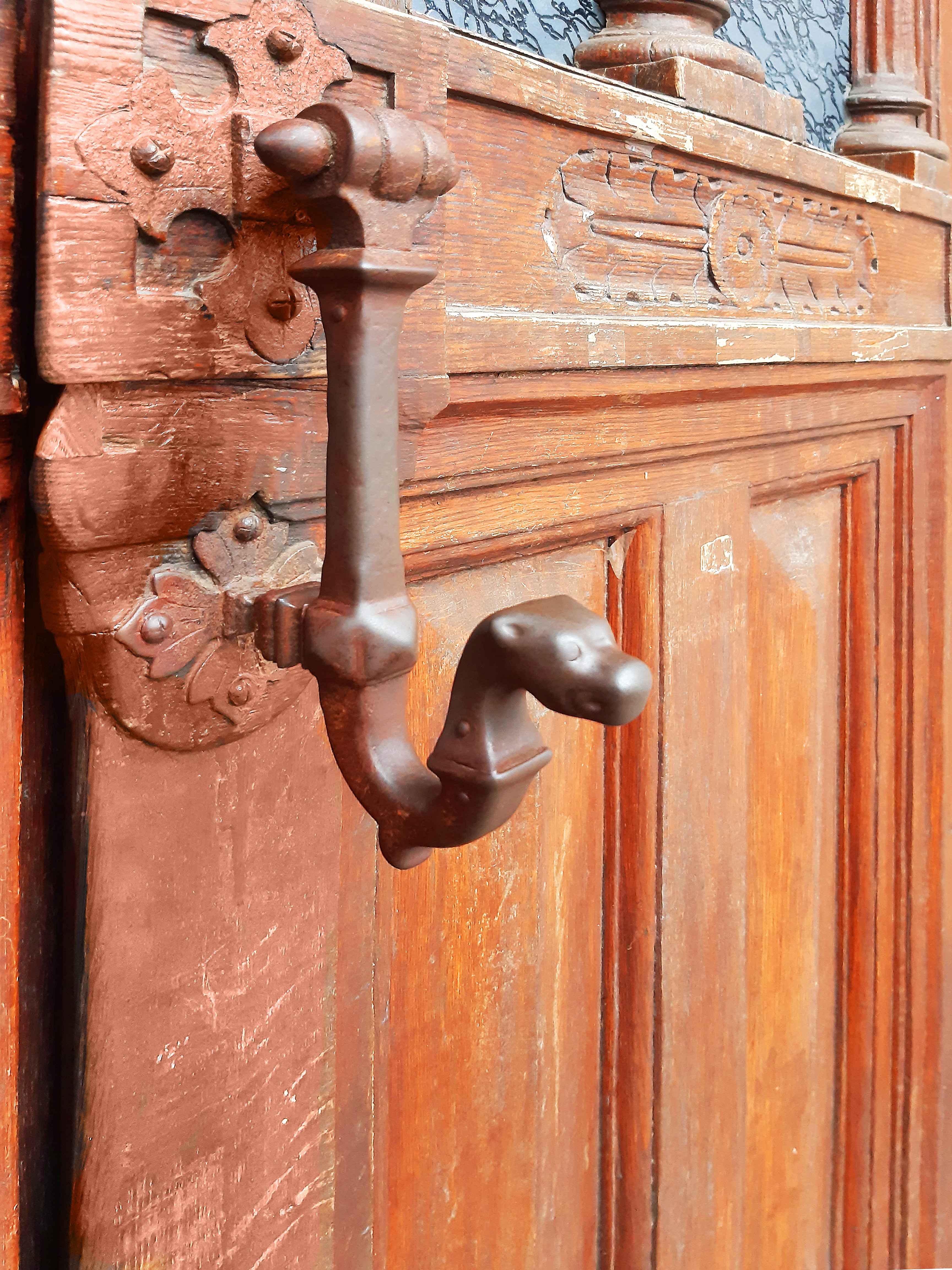 Door knocker